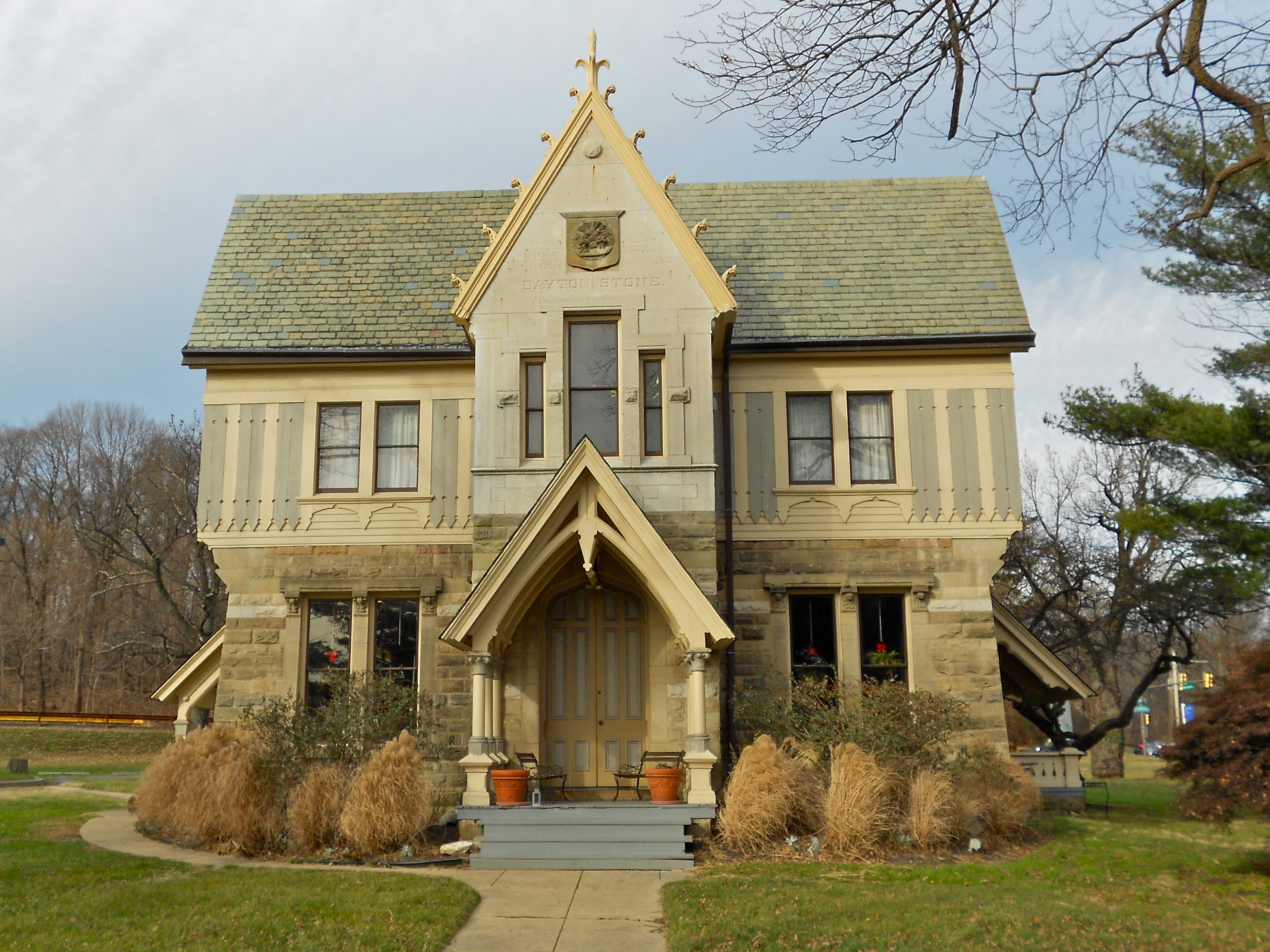 The Ohio House in Fairmount Park from the 1876 Centennial Exhibition in Philadelphia. Part of a NRHP historic District. Only 1 of 2 buildings left in the park from the Centennial Exhibition (other is Memorial Hall).